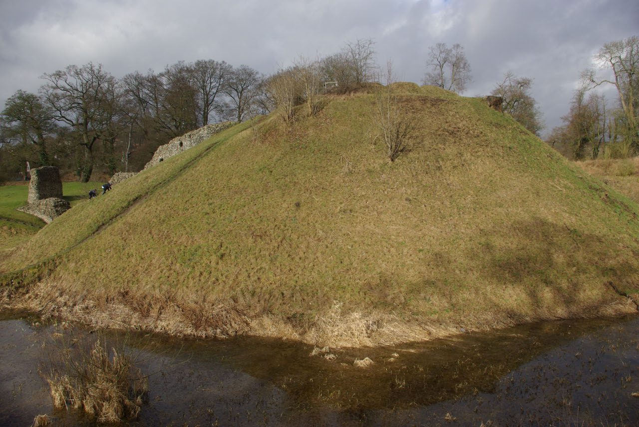 Berkhamsted Castle Two children can be seen scrambling up the side of the 13-metre motte in the north-eastern corner of the site, with the inner moat in the foreground. The moat was designed to be fed from natural springs.